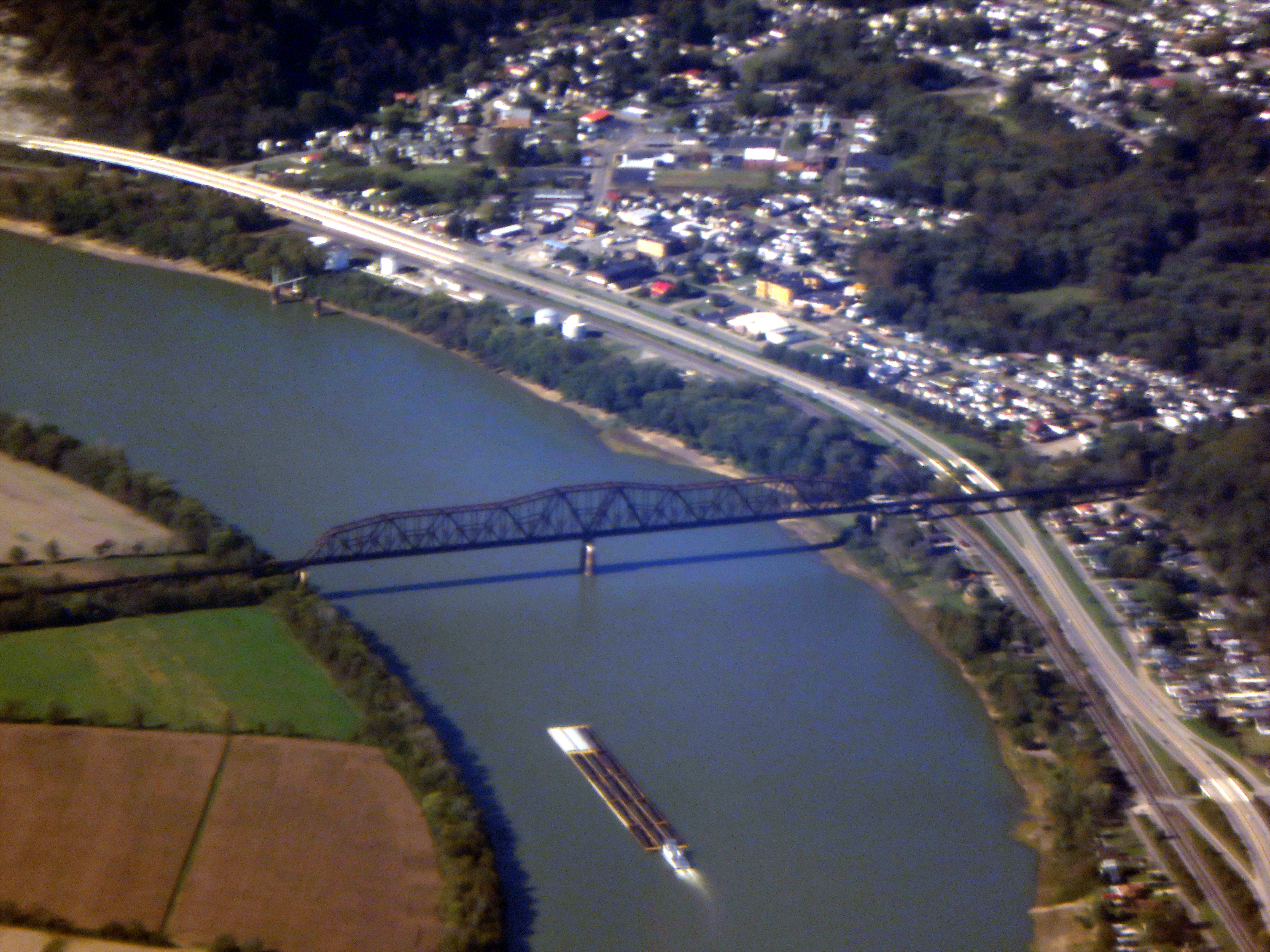 Aerial view of the Sciotoville Bridge over the Ohio River in 2017